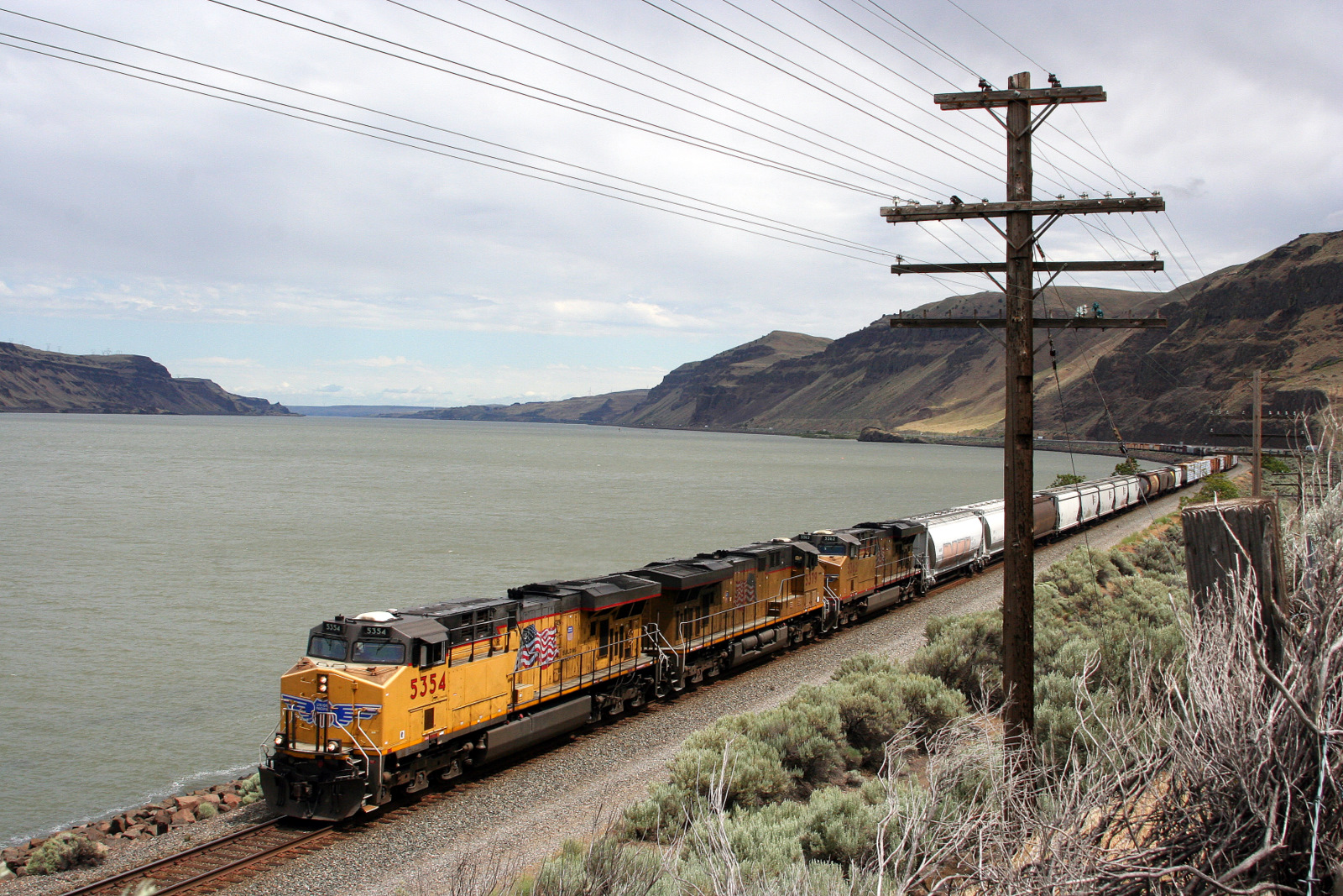 Westbound UP manifest in the Columbia River Gorge near Quinton, Oregon.